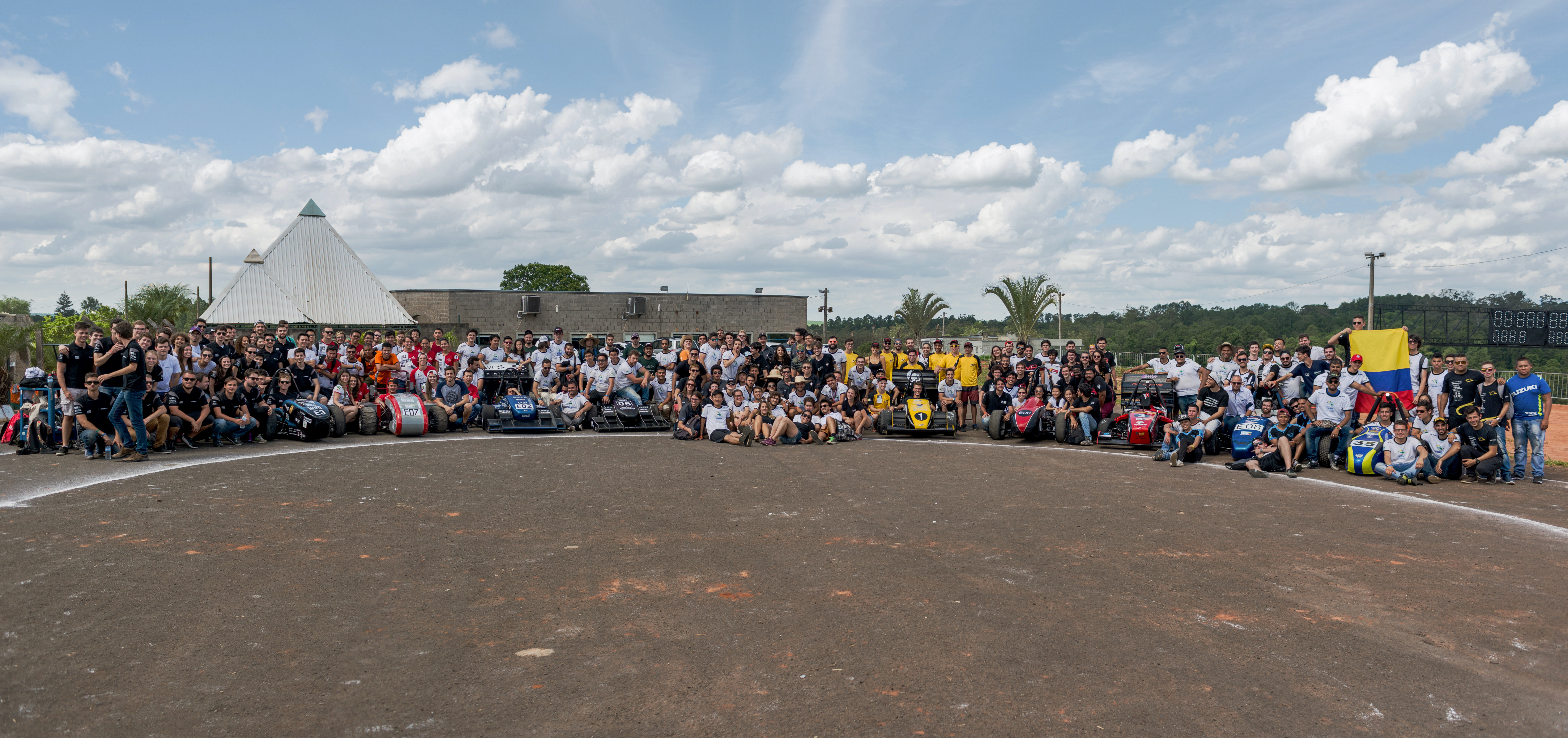 FSAE Brasil 2017